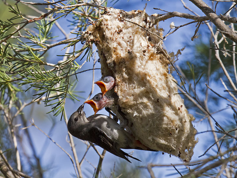 Female mistletoebird feeding babies in nest